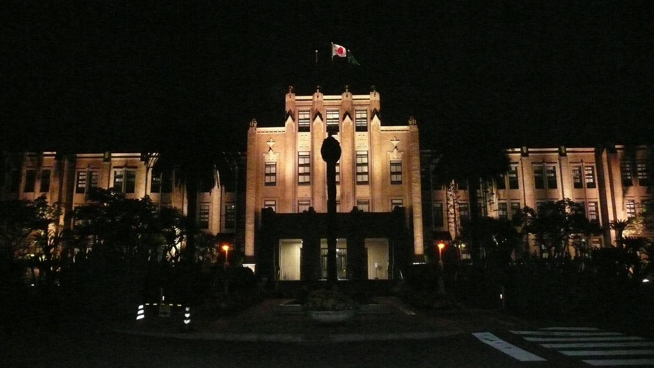 Miyazaki Prefectural Office (November, 2008)